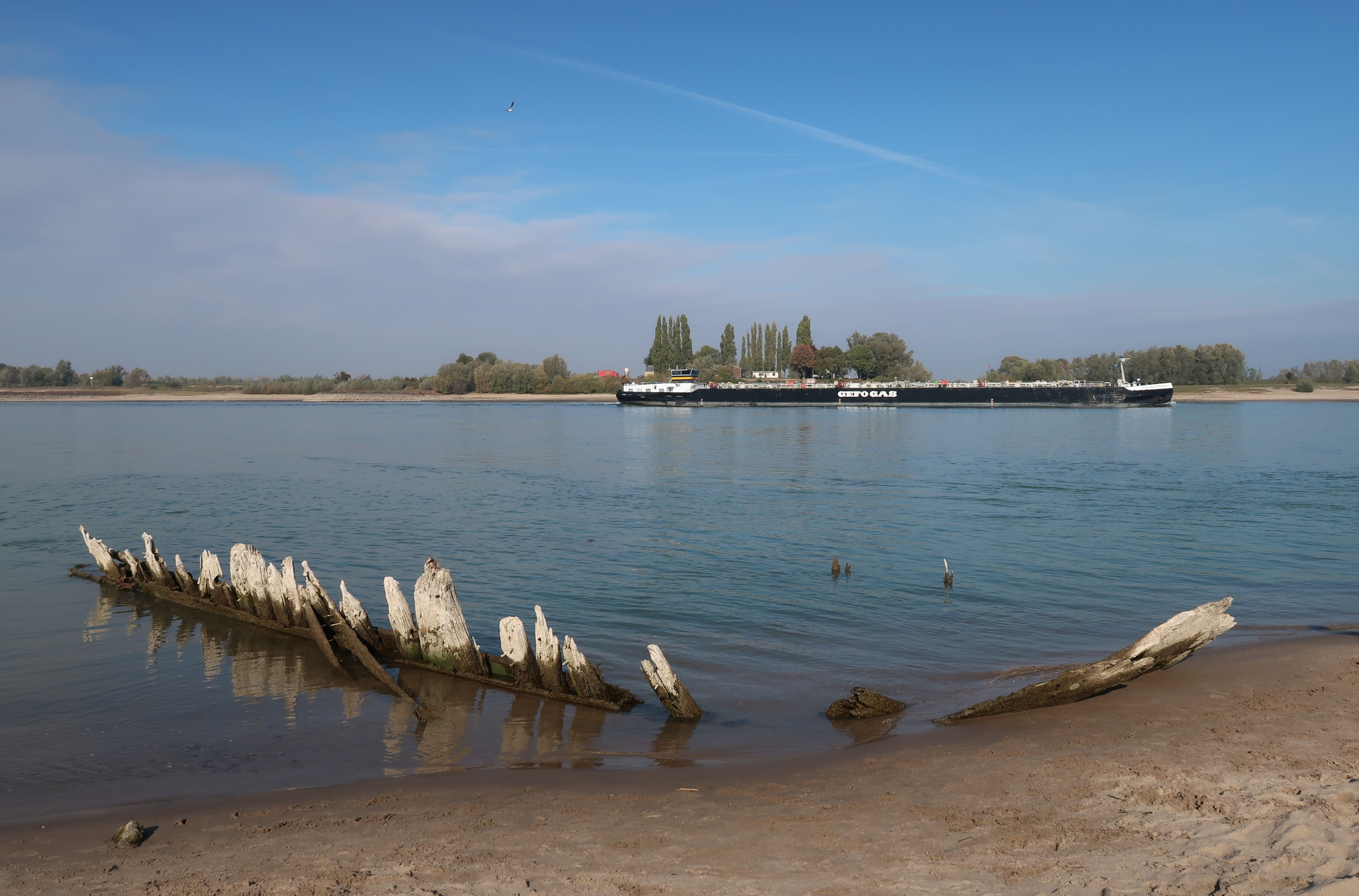 Ship wreck on the banks of the river Rhine near Spyck, Kleve, Germany during very low water on 21th Oct 2018